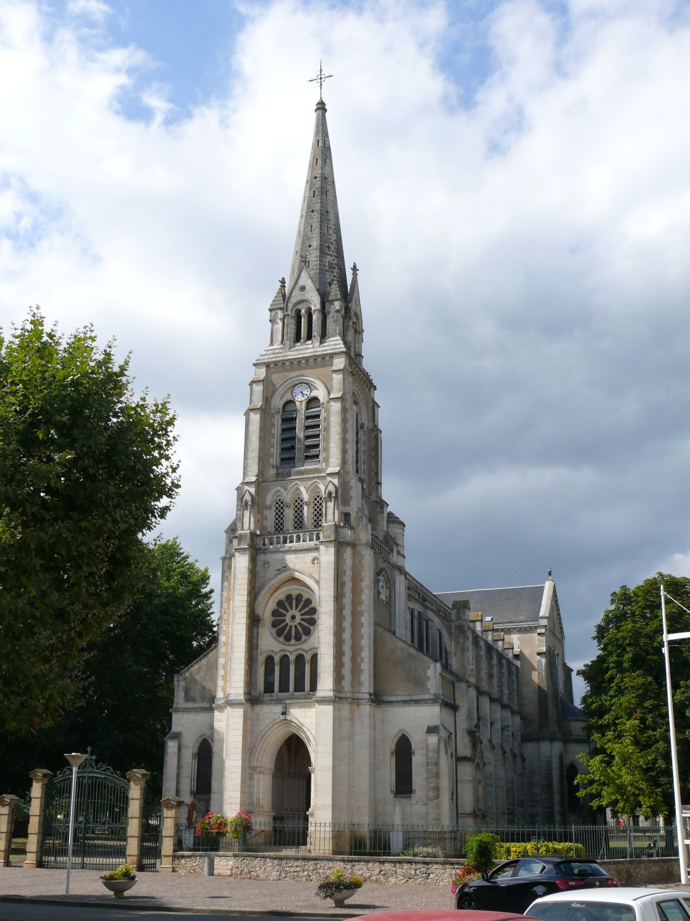 Sainte-Eugénie's church of Pontonx-sur-l'Adour (Landes, Aquitaine, France).